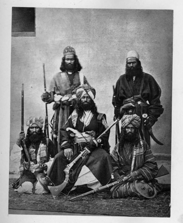 Mir Sherdil Khan Baloch